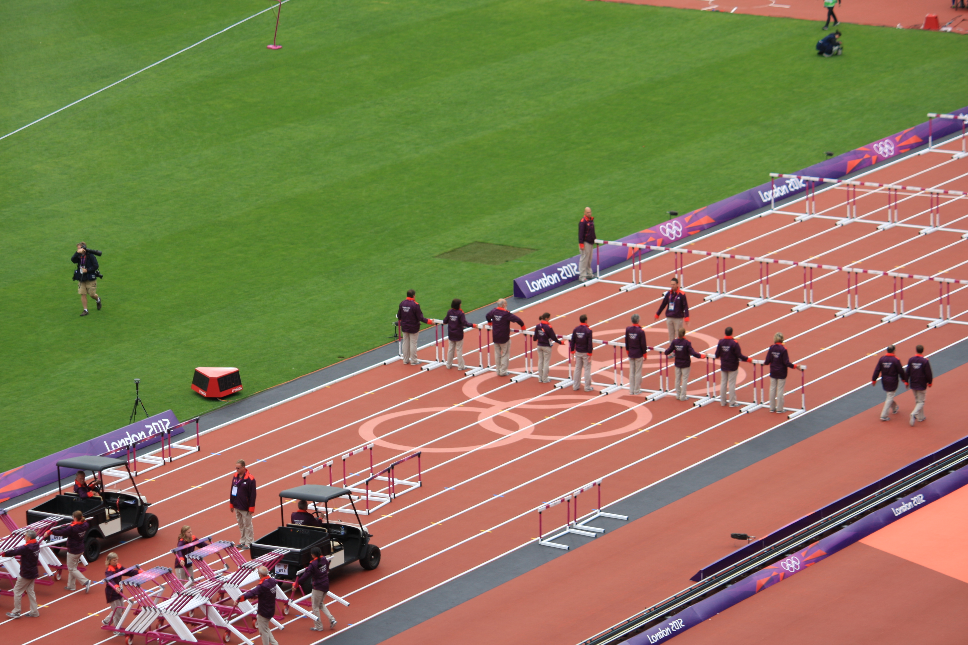 London Olympics 2012: Hurdles are put away with military precision!